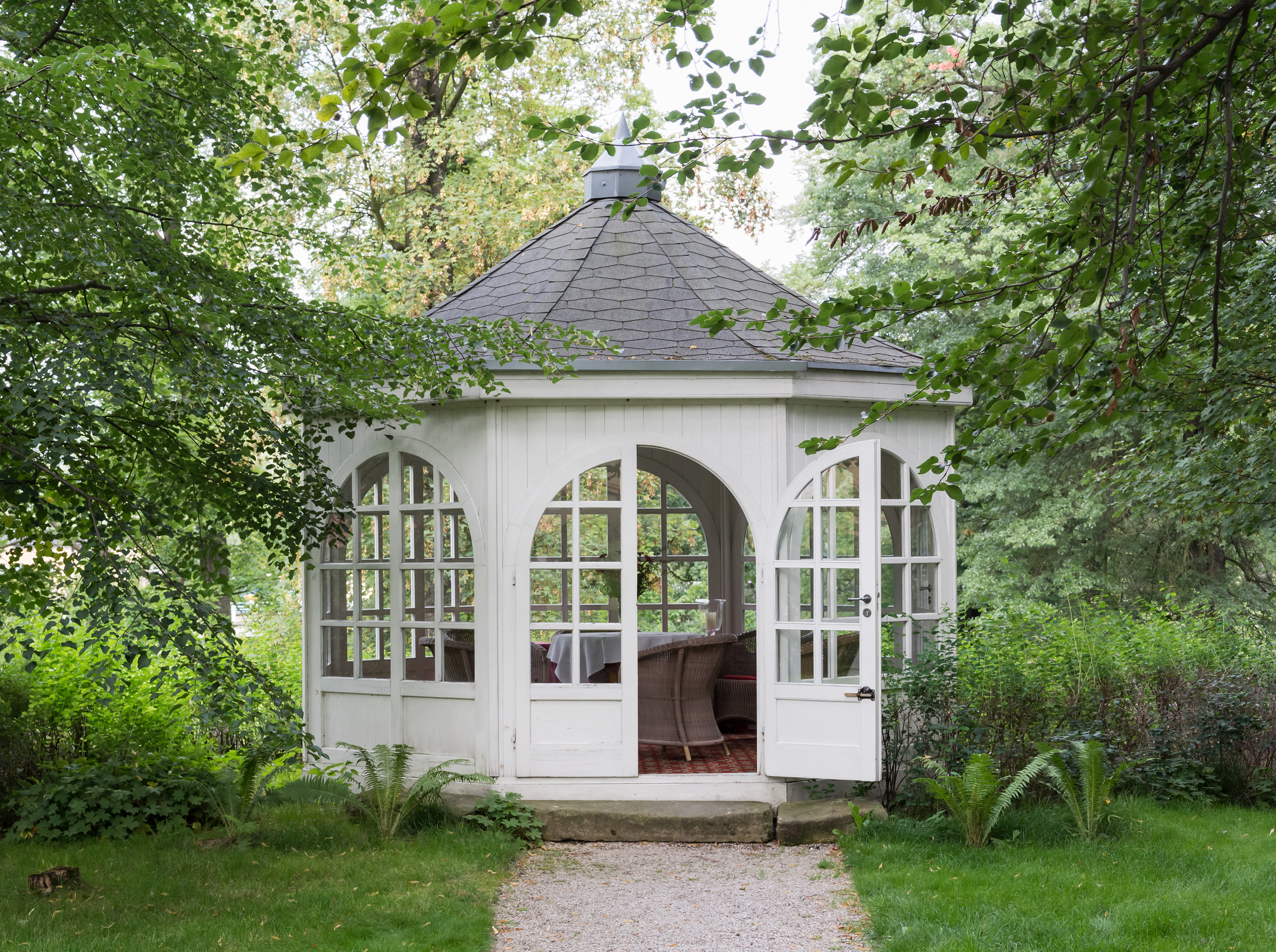 Łomnica Palace Park